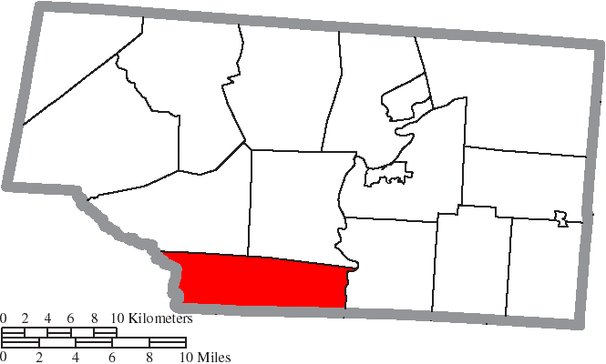 Map of the municipal and township boundaries of Pike County, Ohio, United States, as of the 2000 census, with the location of Camp Creek Township highlighted. Township borders are shown only in unincorporated areas in order to differentiate incorporated and unincorporated areas more clearly.